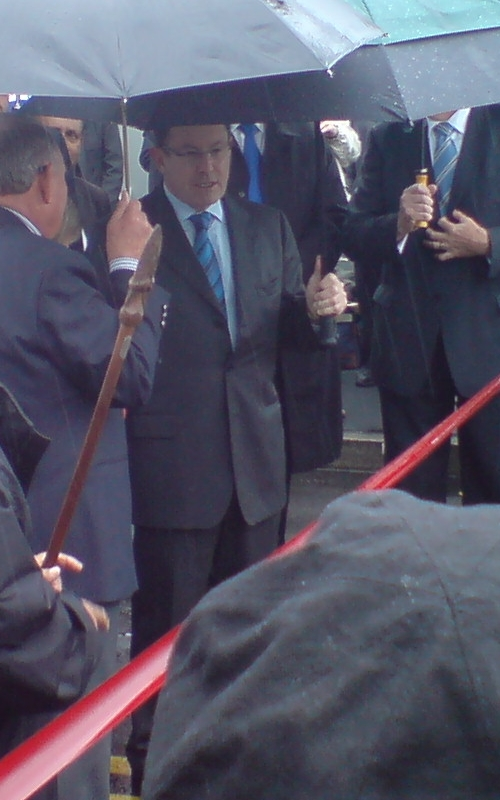 John Banks, then Mayor of Auckland City, New Zealand. At the ribbon-cutting ceremony for the reopening of Grafton Bridge.